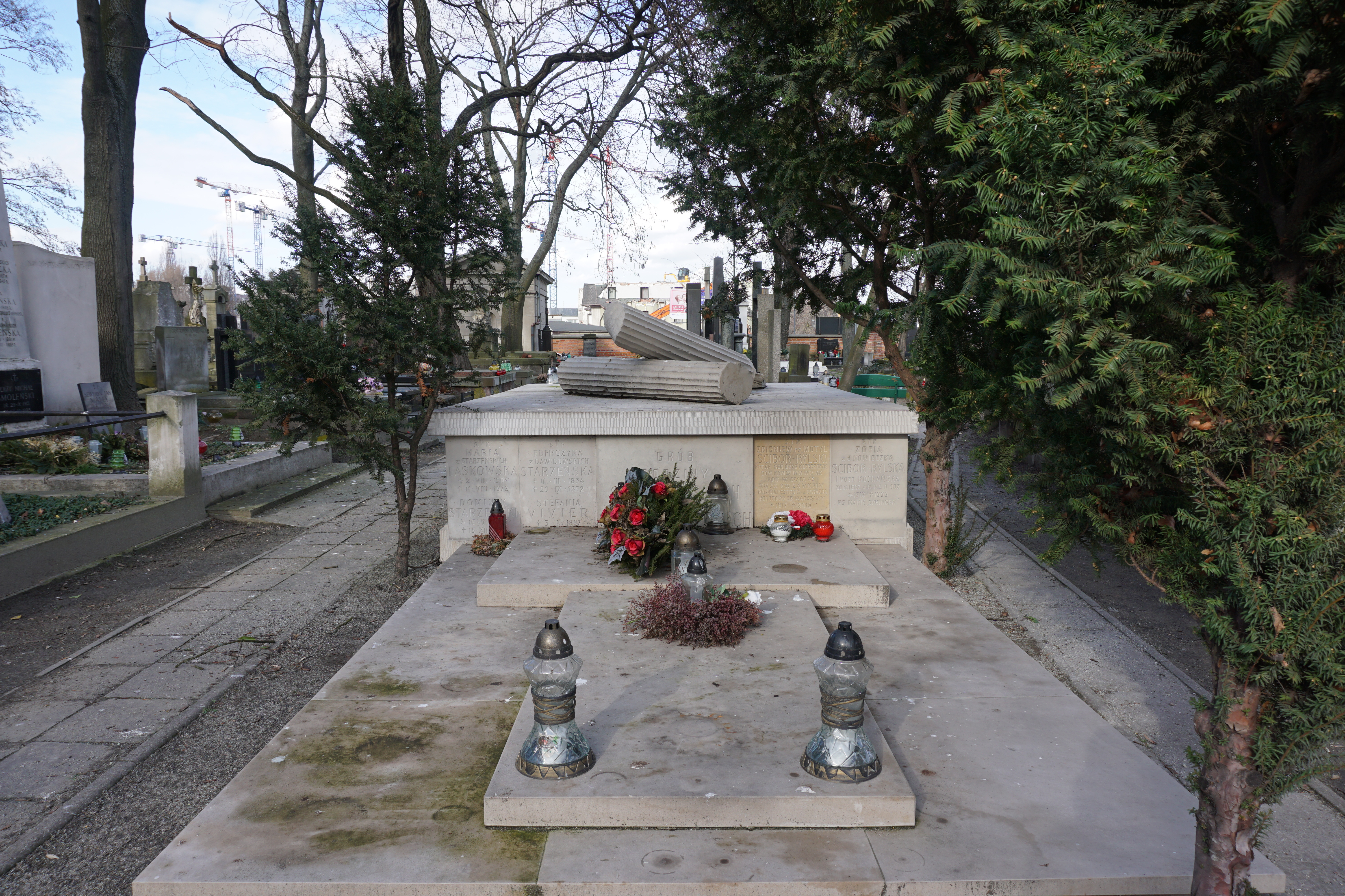 The grave of Zofia Ścibor-Rylska at the Powązki Cemetery (section 178a, row 2, grave 26, 27, 28, 29)